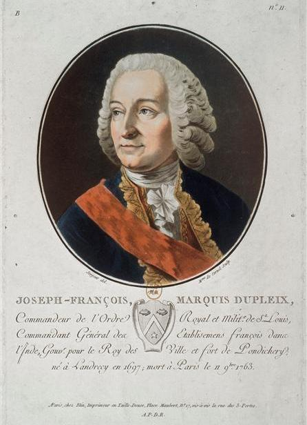 Print of Dupleix, governor of French India from 1742 to 1754.